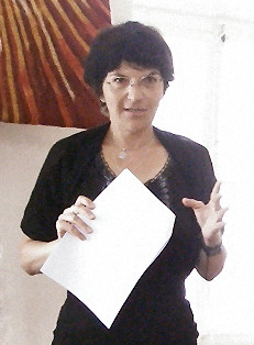 Romanian essayist and publicist Ioana Pârvulescu at the International Contemporary Arts (ICon Arts) Summer Classes, Cisnădie, Romania, august 2008.